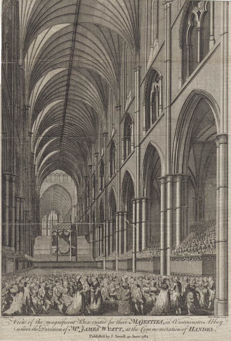 View of the magnificent Box erected for their MAJESTIES, in Westminster Abbey under the Direction of MR. JAMES WYATT, at the Commemoration of HANDEL.